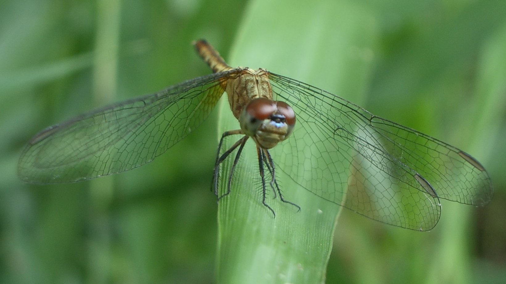 Description: Female Erythrodiplax umbrata